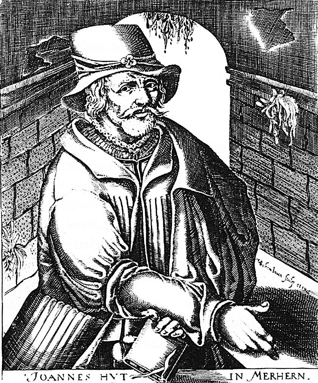 German Anabaptist Hans Hut (1490-1527); Gravure by Christoffel van Sichem